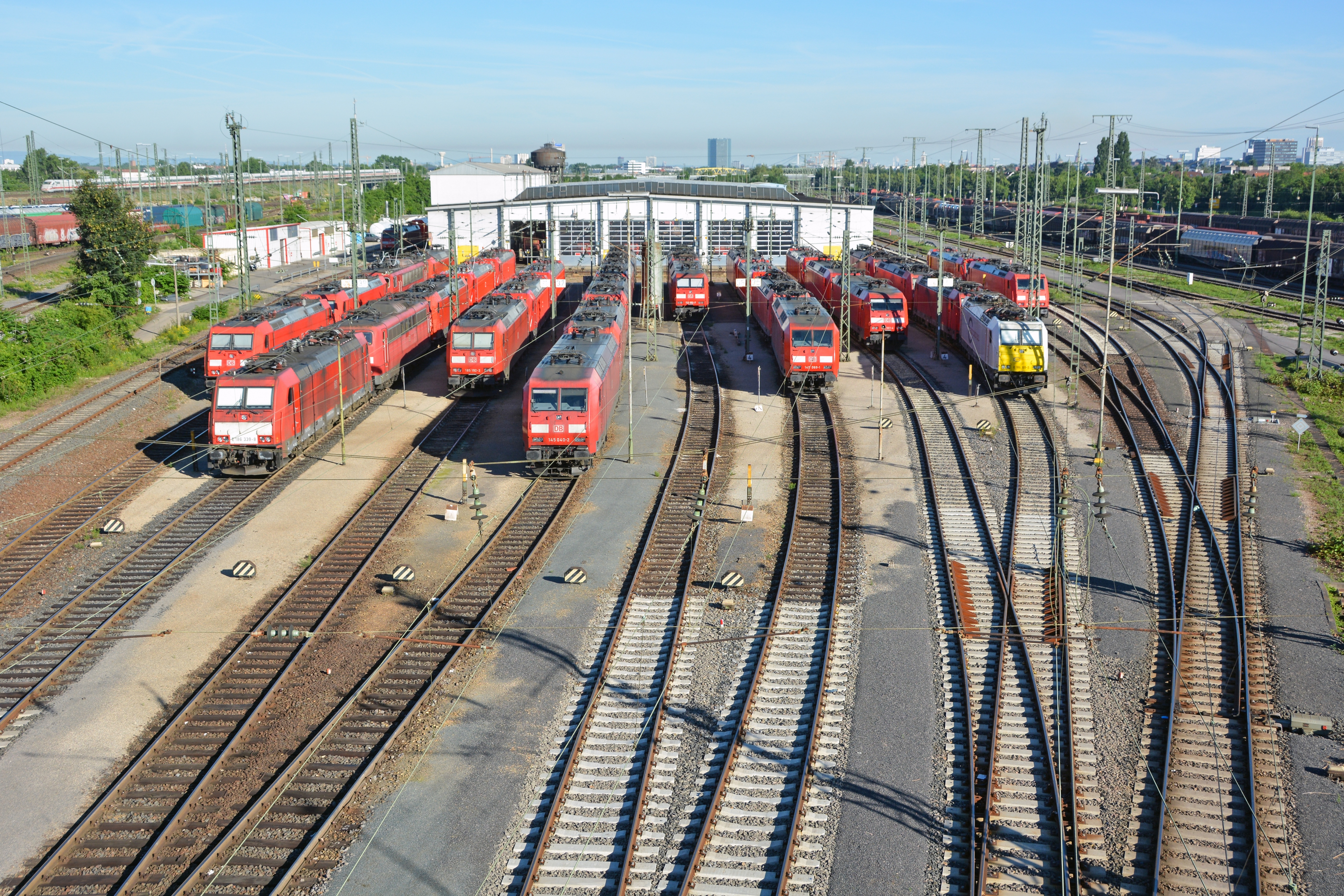 Mannheim, Germany, locomotive tracks in the marshalling yard)